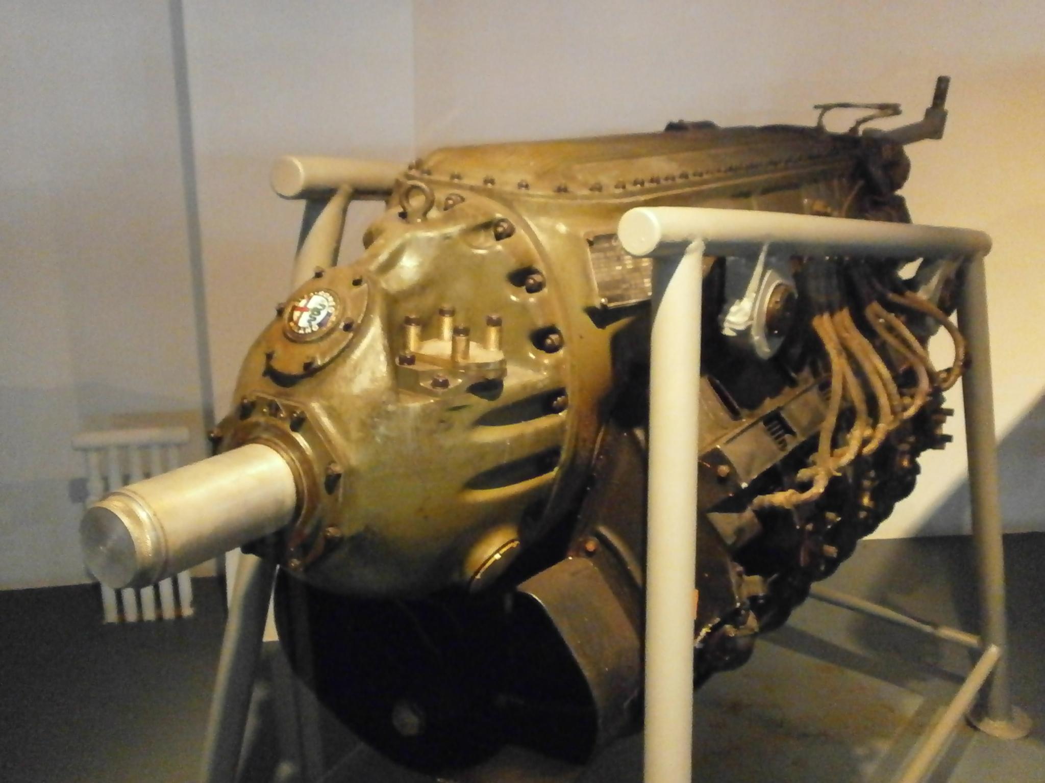 Motore Alfa Romeo 121 - alfa romeo engine for airplanes - Museo della Scienza e della Tecnica - Milan